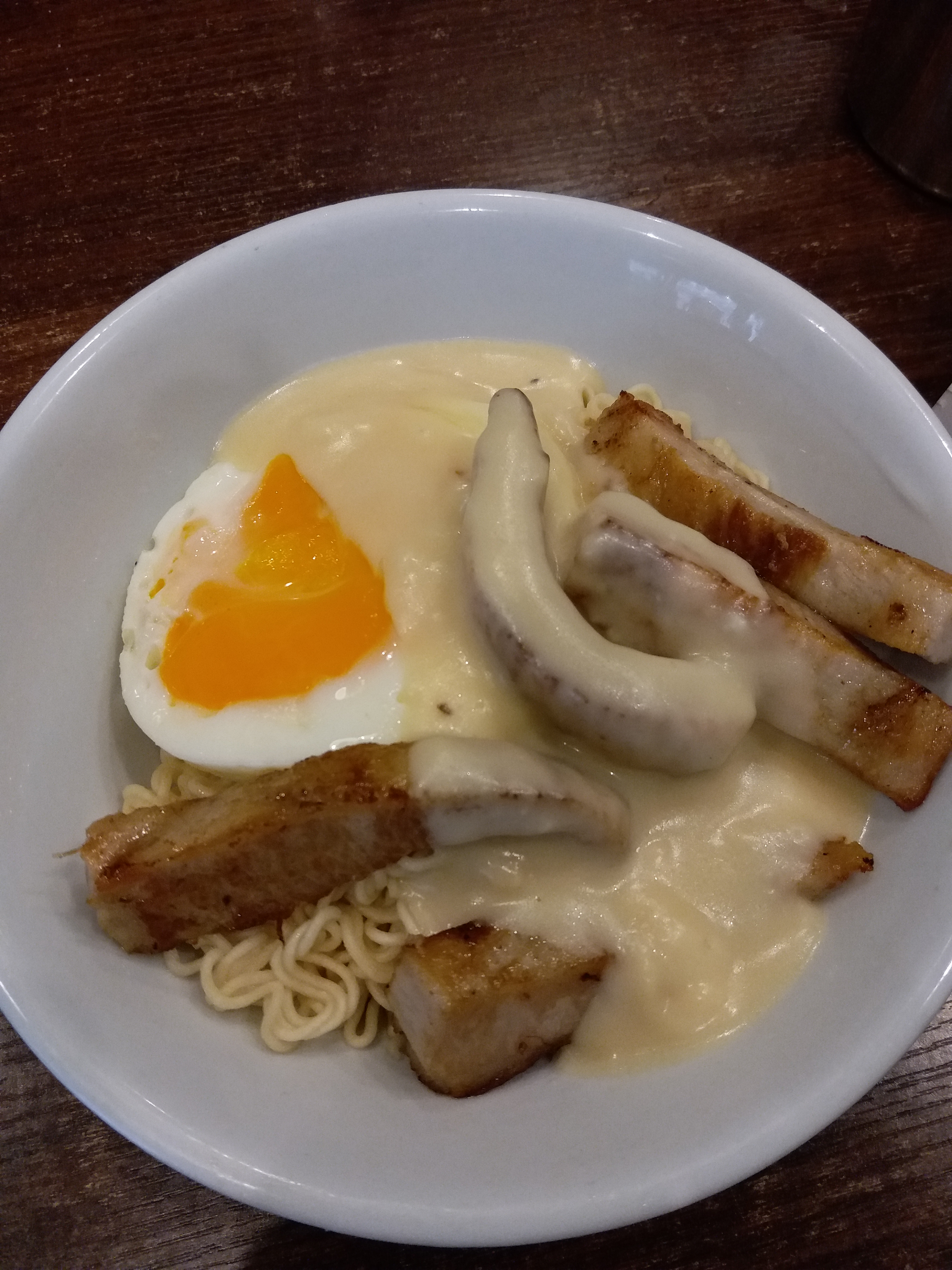 豬頸肉芝士撈丁 This photo has been taken in the country: China